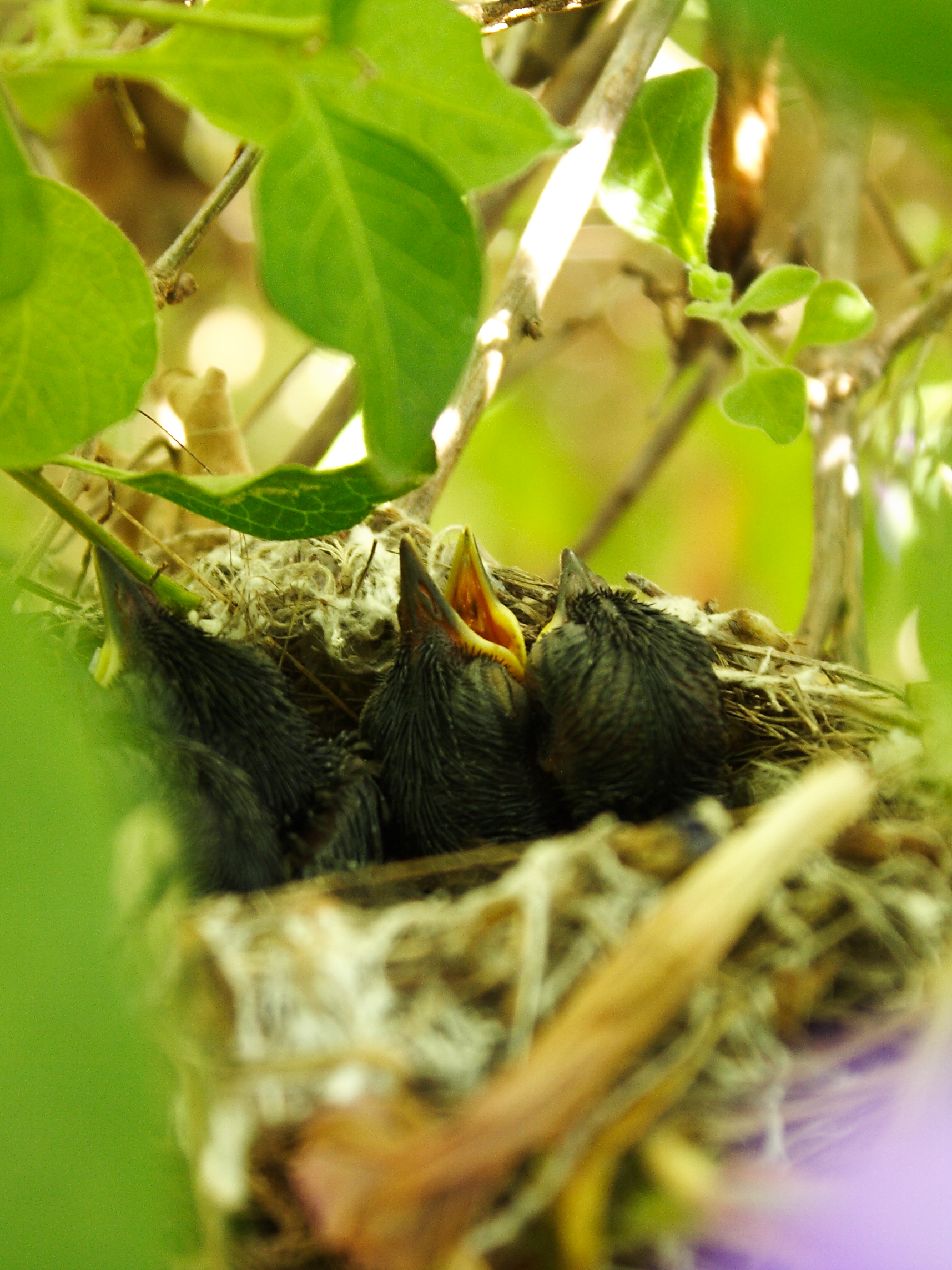 Sardinian warbler